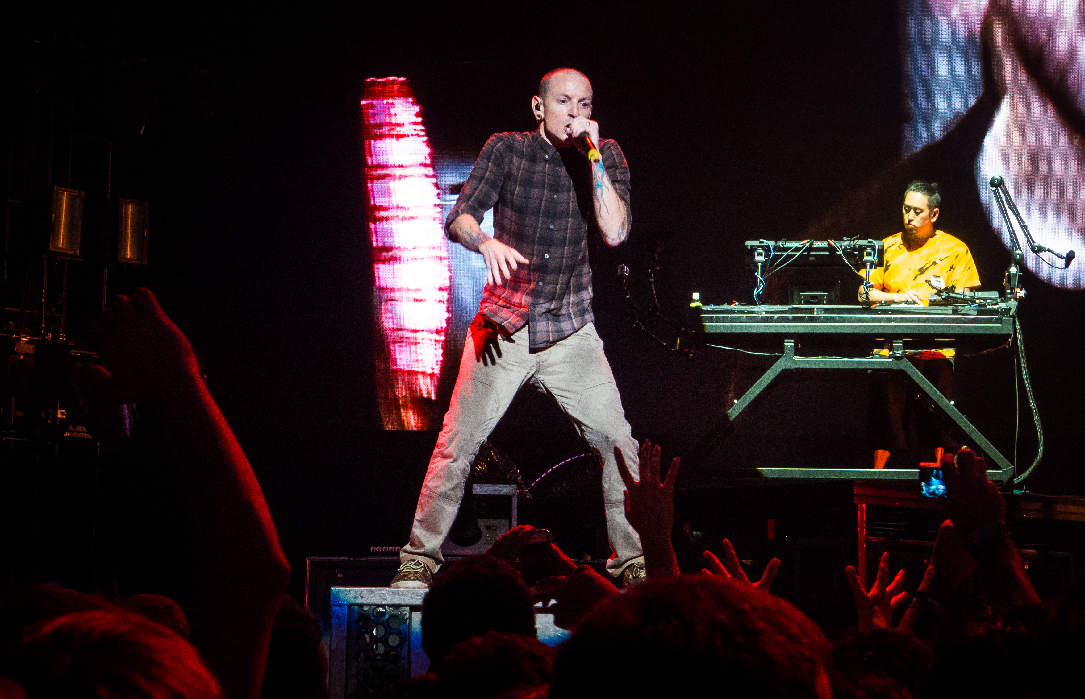 Chester Bennington performing with Linkin Park at Soundwave 2013 - Rod Laver Arena, Melbourne.